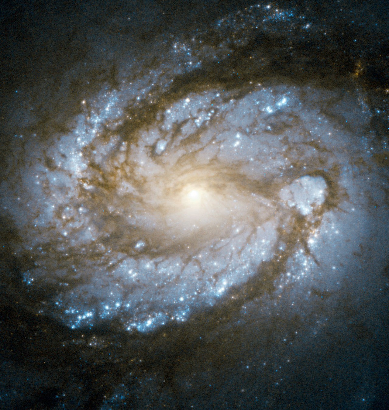 Messier 100 is a perfect example of a grand design spiral galaxy, a type of galaxy with prominent and very well-defined spiral arms. These dusty structures swirl around the galaxy’s nucleus, and are marked by a flurry of star formation activity that dots Messier 100 with bright blue, high-mass stars. This image from the NASA/ESA Hubble Space Telescope, the most detailed made to date, shows the bright core of the galaxy and the innermost parts of its spiral arms. Messier 100 has an active galactic nucleus — a bright region at the galaxy’s core caused by a supermassive black hole that is actively swallowing material, which radiates brightly as it falls inwards. The galaxy’s spiral arms also host smaller black holes, including the youngest ever observed in our cosmic neighbourhood, the result of a supernova observed in 1979. Messier 100 is located in the direction of the constellation of Coma Berenices, about 50 million light-years distant. The galaxy became famous in the early 1990s with the release of two images of the object taken with Hubble before and after a major repair to the telescope, which illustrated the dramatic improvement in Hubble’s observations. This image, taken with the high resolution channel of Hubble’s Advanced Camera for Surveys demonstrates the continued evolution of Hubble’s capabilities over two decades in orbit. This image, like all high resolution channel images, has a relatively small field of view: only around 25 by 25 arcseconds.